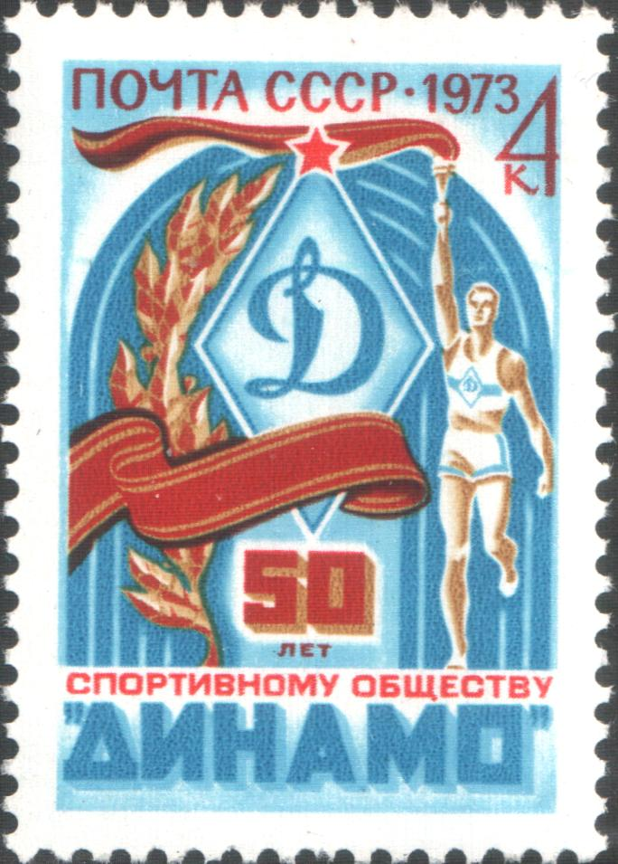 USSR stamp